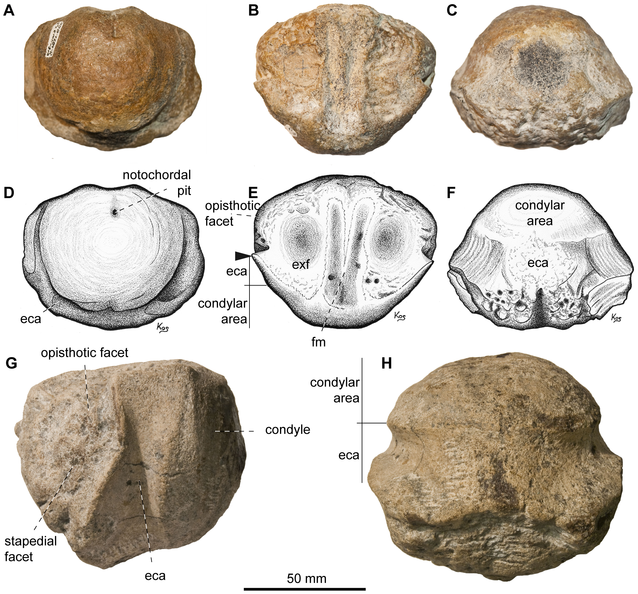 Basioccipital of Acamptonectes densus. A–F: SNHM1284-R, in posterior view (A,D), in dorsal view (B,E), and in ventral view (C,F). G–H: GLAHM132588 (holotype), in lateral view (G) and ventral view (H). Note the markedly concave extracondylar band that separates the condyle from the rest of the basioccipital and the bilobed median concavity for the foramen magnum. The arrow in E indicates the protruding anterior edge of the extracondylar area posterior to the depressed opisthotic facet. Abbreviations: eca: extracondylar area; exf: exoccipital facet; fm: median concavity for the foramen magnum.